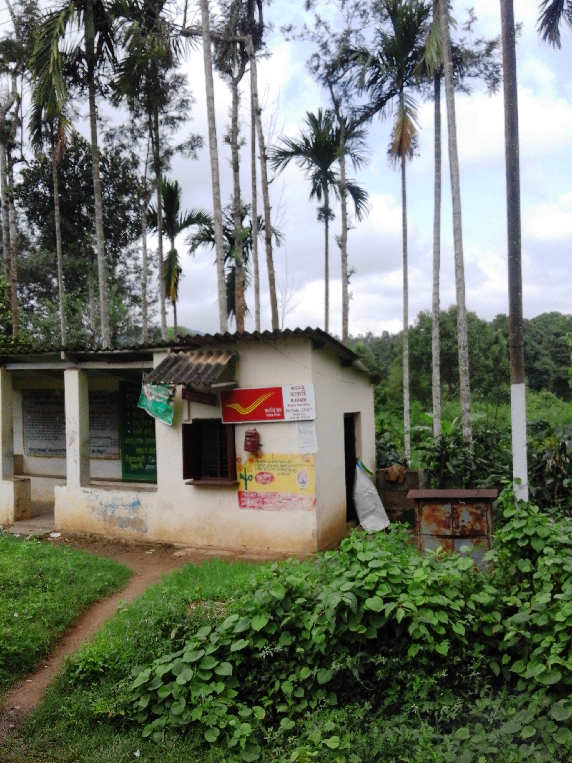 Kodagu district, Karnataka state, India